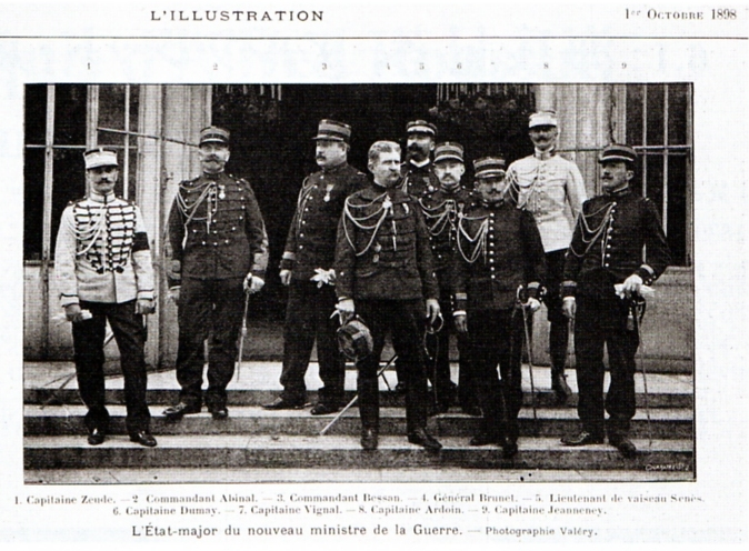 General Jules Brunet (hat in hand) as Chief-of-staff. From L'Illustration, Oct 1st, 1898.